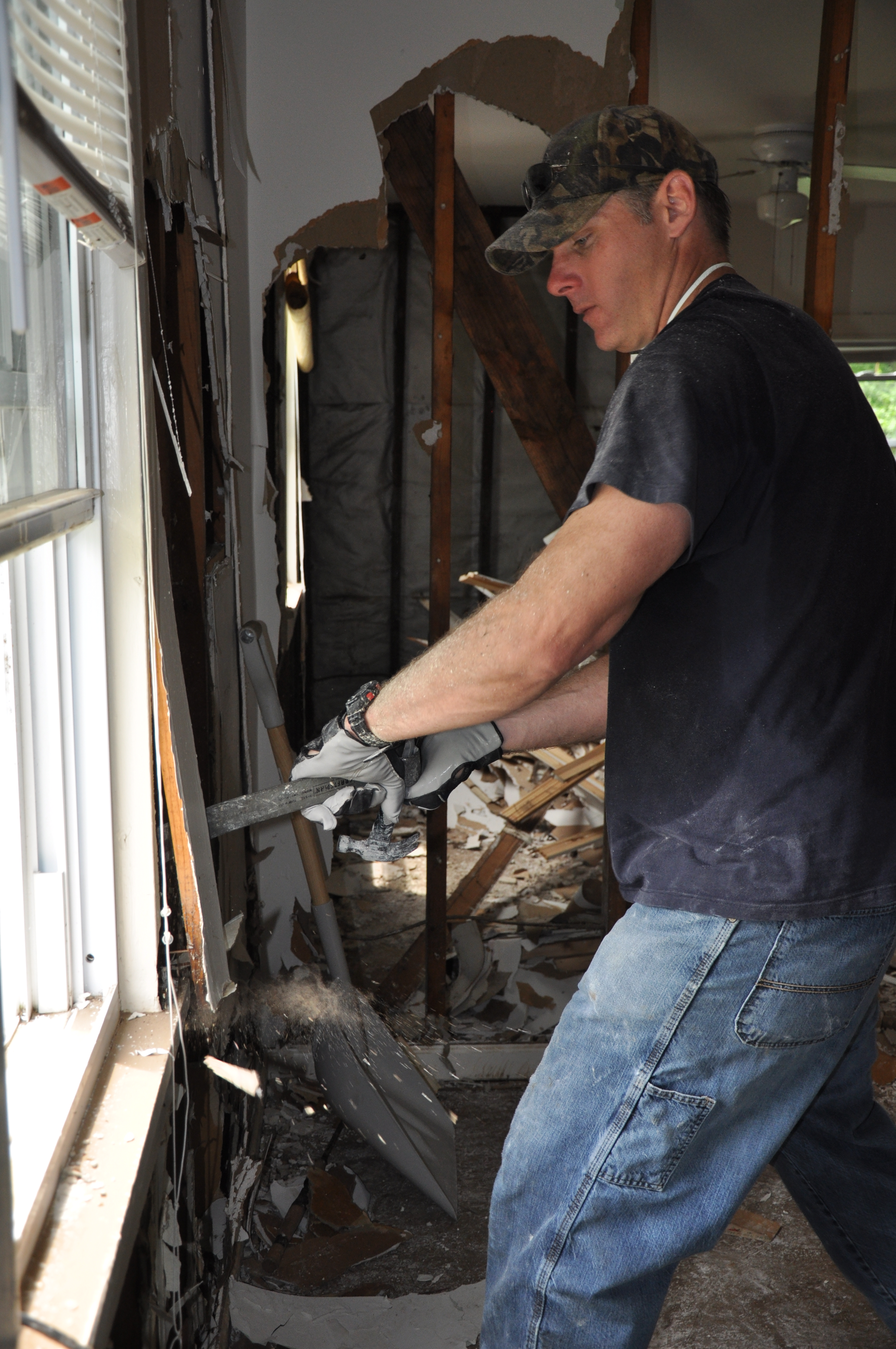 Nashville, TN, May 12, 2010 -- Tennessee Titan quarterback Kerry Collins tears out the window molding of a flooded home in Nashville. The Titans spent the day cleaning out homes that were heavily impacted by flood waters. FEMA/Marty Bahamonde